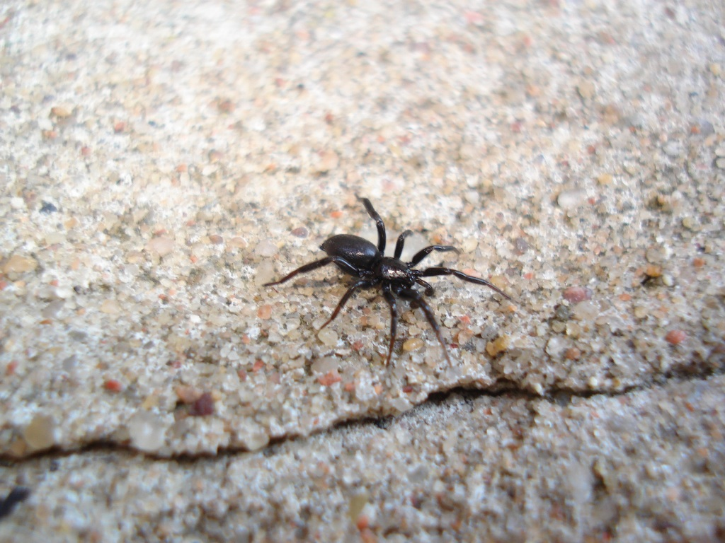 Zelotes latreillei